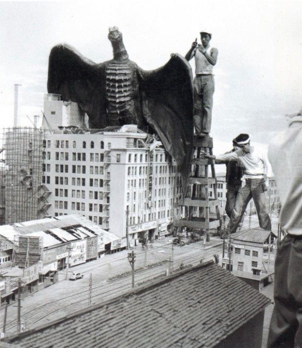 Behind the scenes of Rodan (1956)